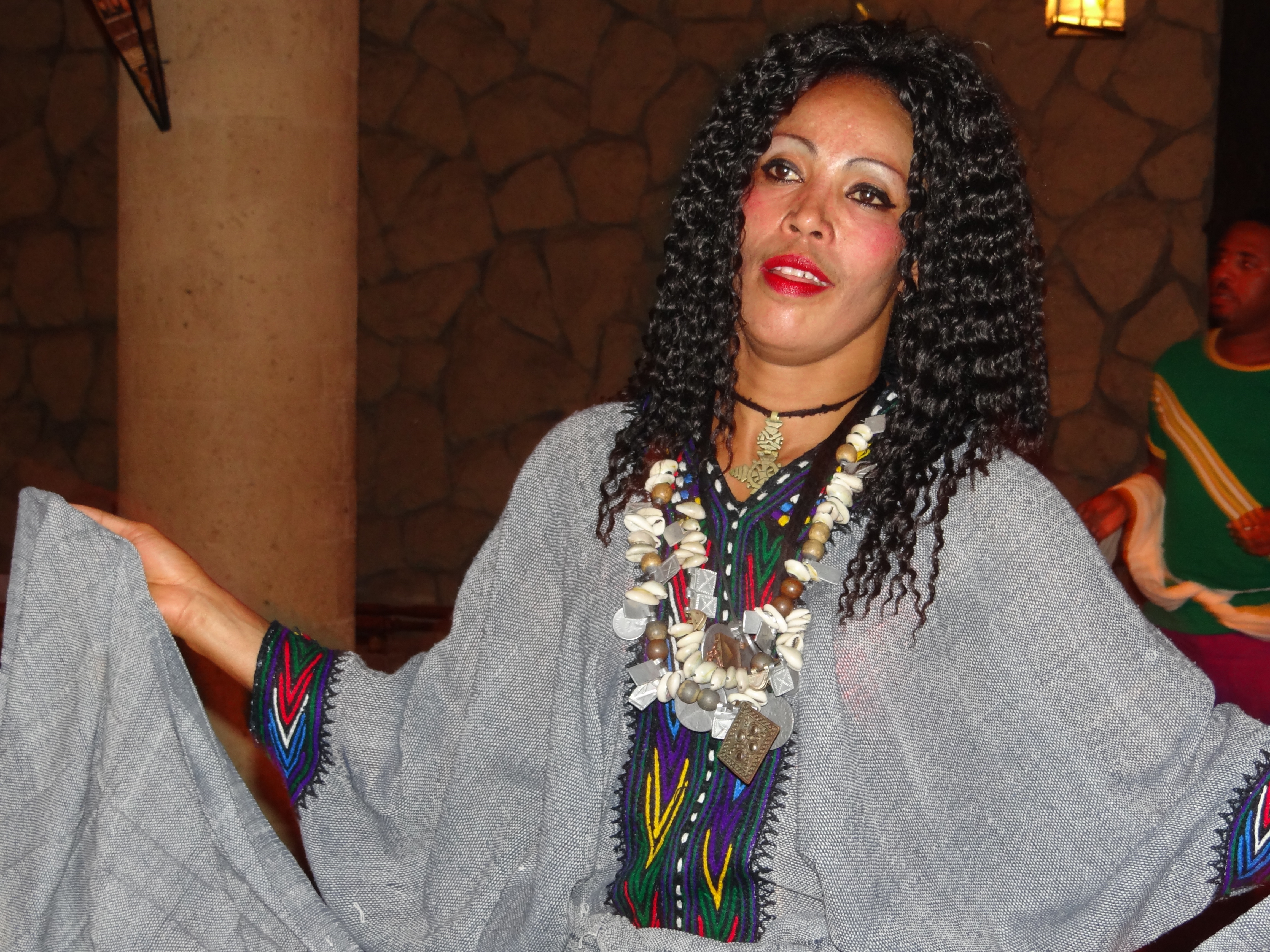 A Habesha woman in traditional attire performing a cultural dance.